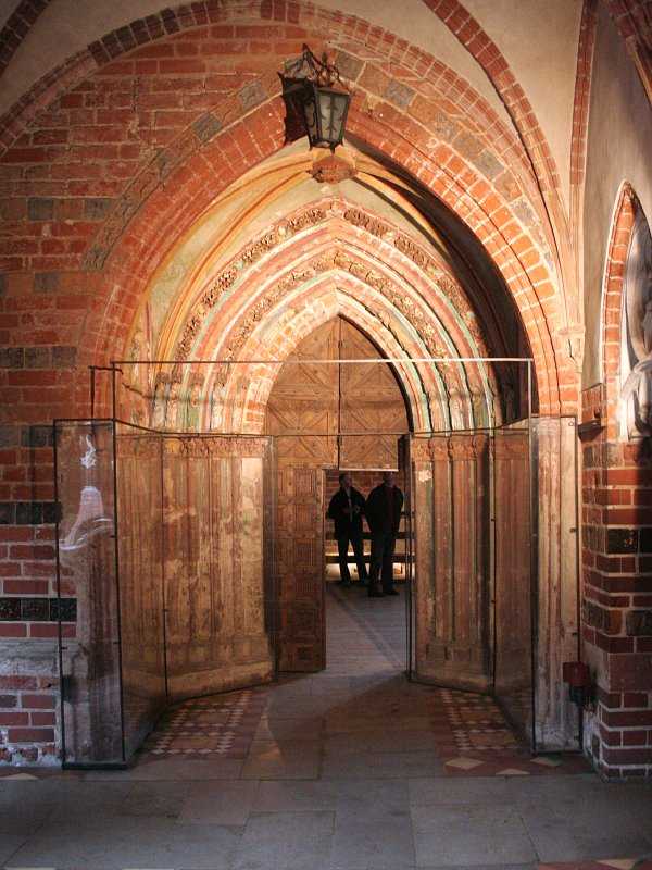 Malbork, entrance to castle church on the High Castle, so-called "Golden Gate"